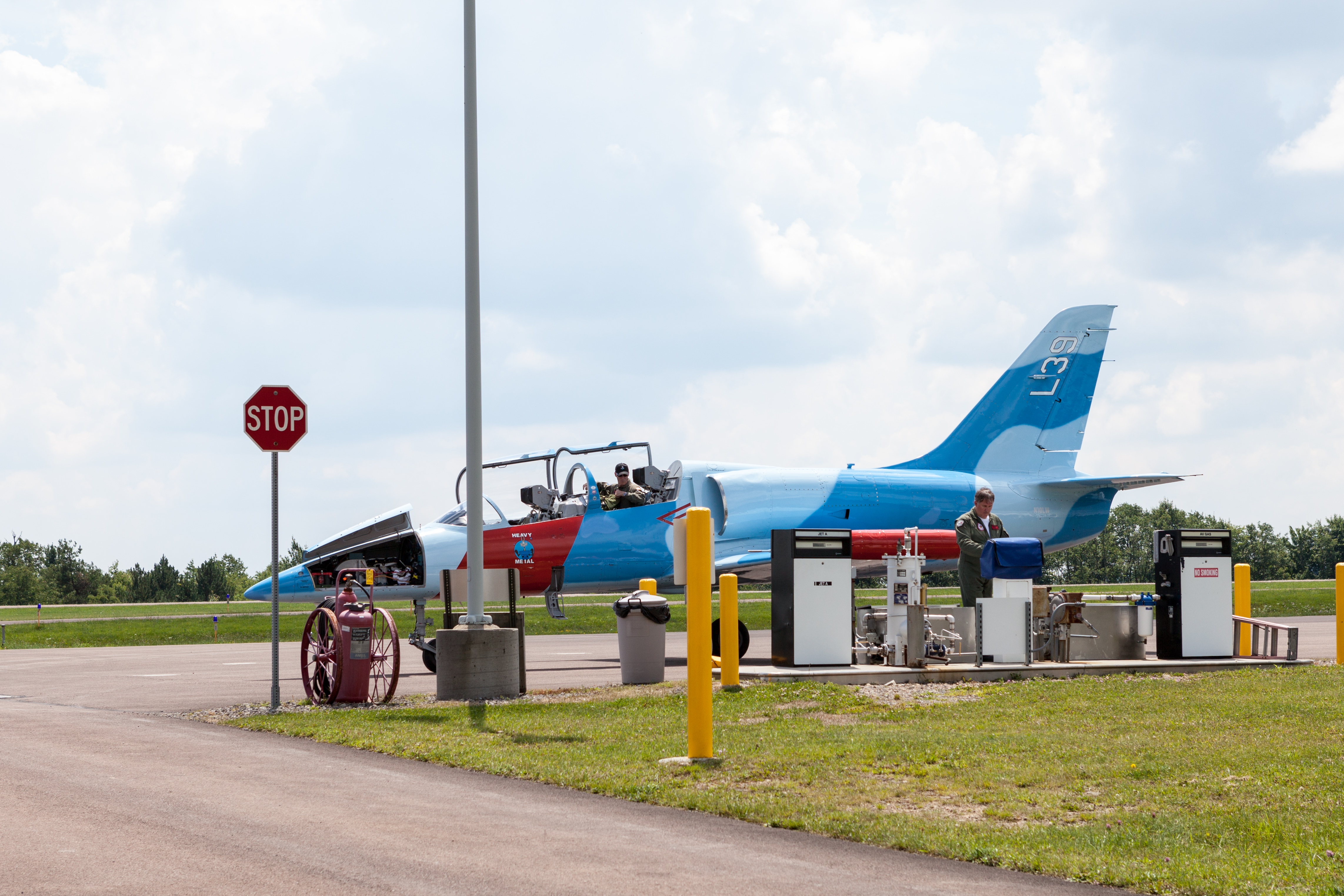 An Aero L-39 refuels at the Garrett County Airport(2G4) in Garrett County, Maryland.